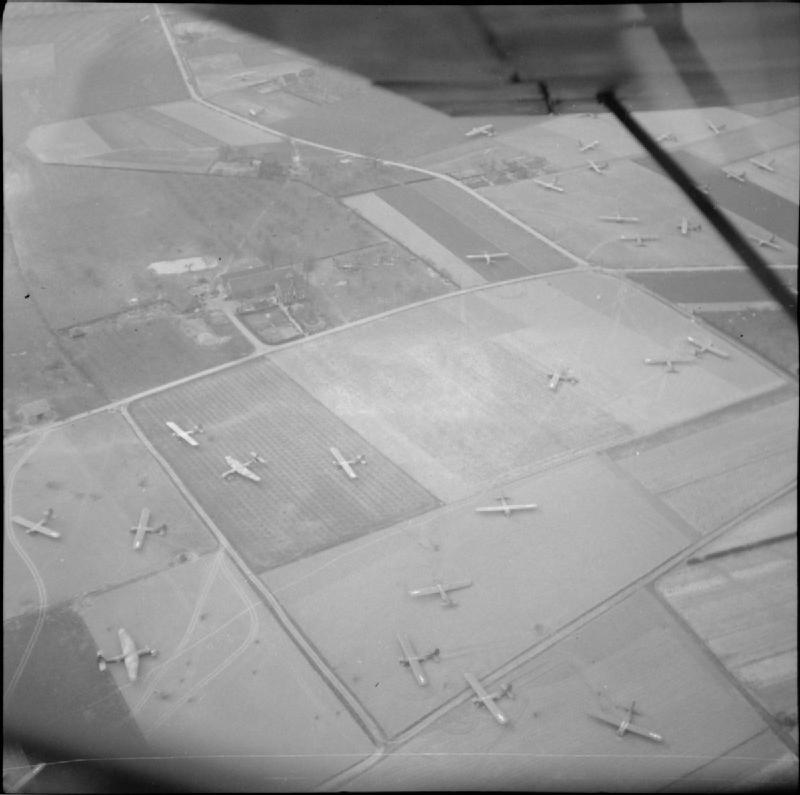 The British Army in North-west Europe 1944-45 Aerial view of British and American gliders in fields around Hamminkeln, 25 March 1945.